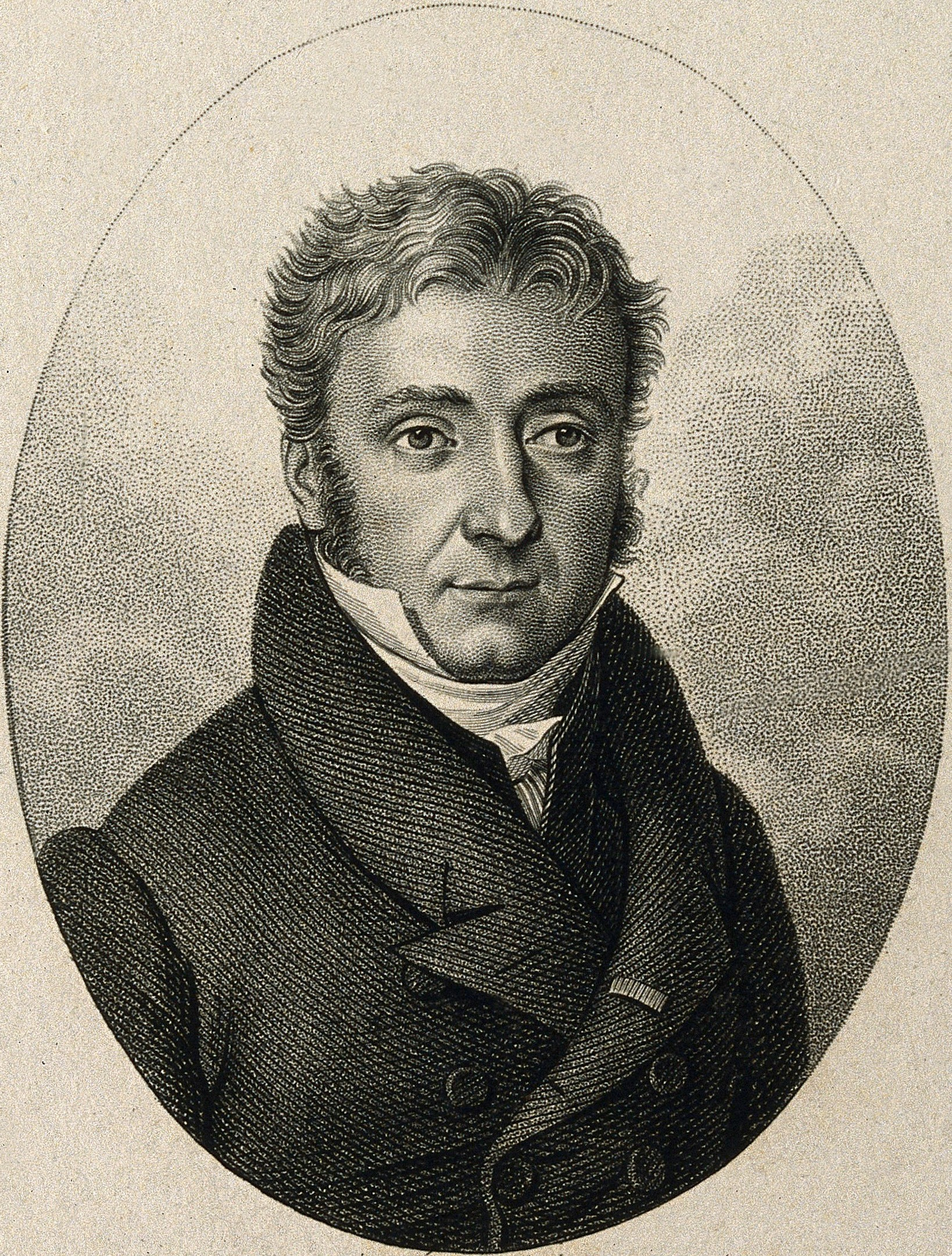 Photograph taken from a 19th-century scientific book